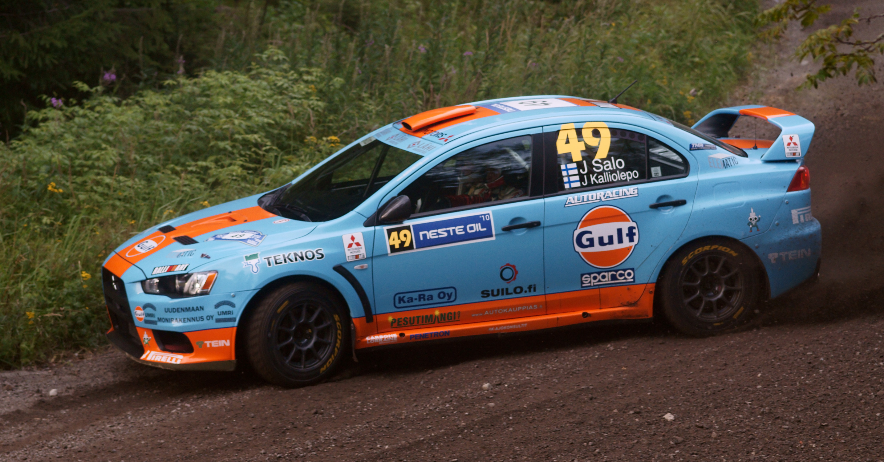 Juha Salo driving at Laajavuori special stage, Rally Finland 2010.